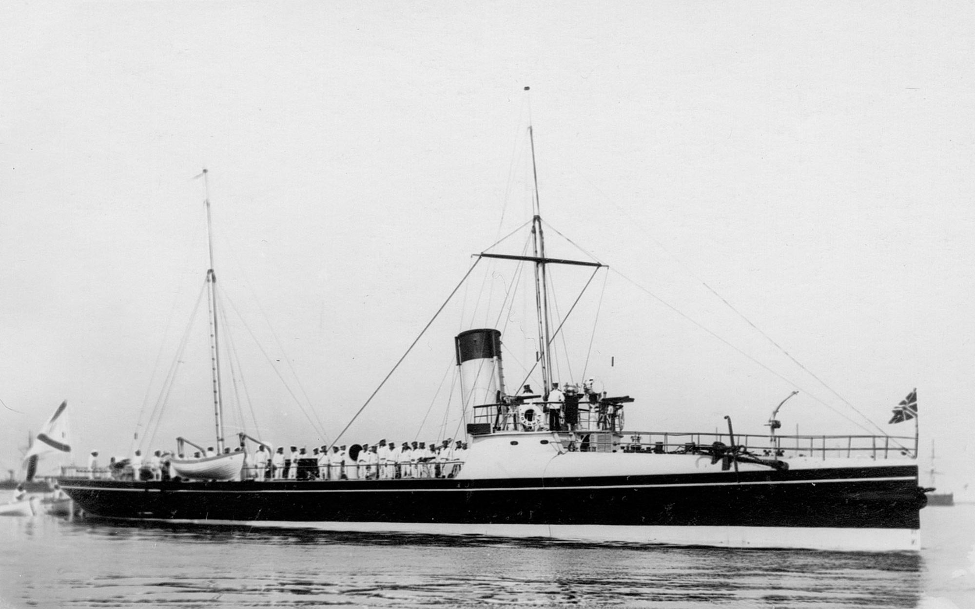 The Imperial Russian torpedo crusier Voevoda in Kronstadt, circa 1896.